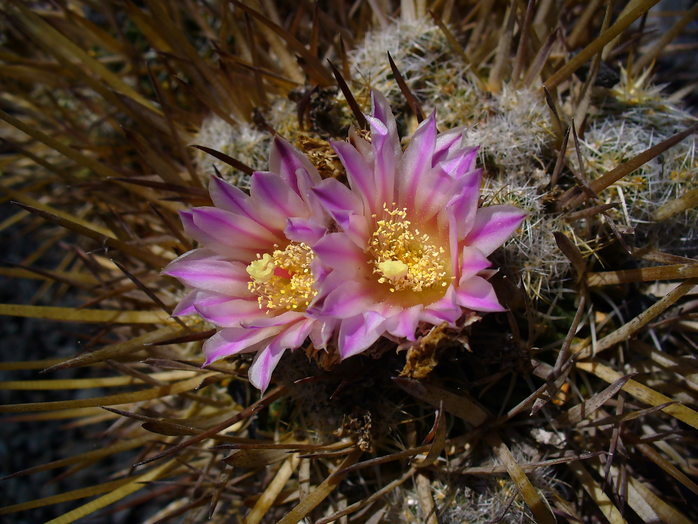 Flowers; Jardin de Cactus, Guatiza, Lanzarote, Canary Islands, Spain.